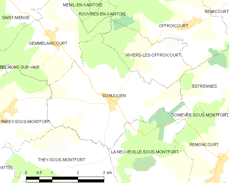 Map of French municipality Domjulien